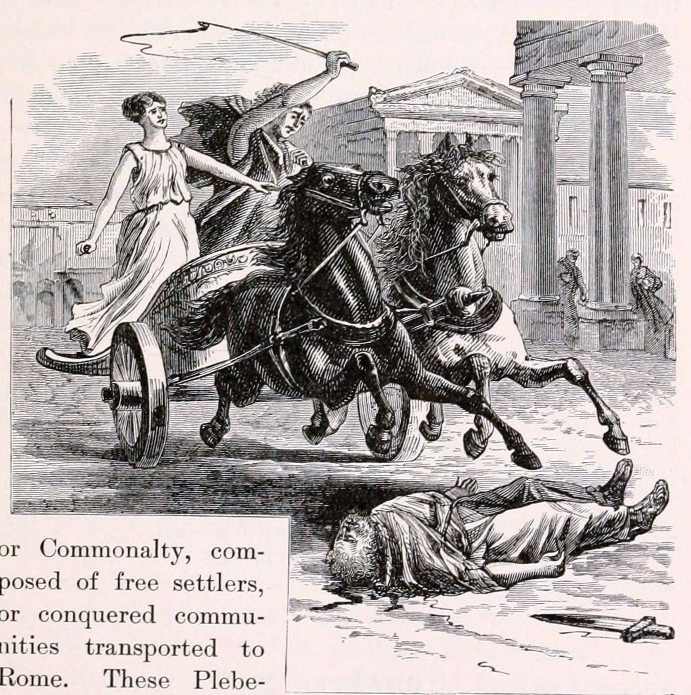 Illustrated school history of the world, from the earliest ages to the present time: by Quackenbos, John D. (John Duncan), 1848-1926 Published 1904 SHOW MORE 1 History--Outlines, syllabi, etc Publisher New York, Cincinnati [etc.] American book company Pages 512 Possible copyright status The Library of Congress is unaware of any copyright restrictions for this item. Language English Call number 7730819 Digitizing sponsor Sloan Foundation Book contributor The Library of Congress Collection library_of_congress; americana Full catalog record MARCXML